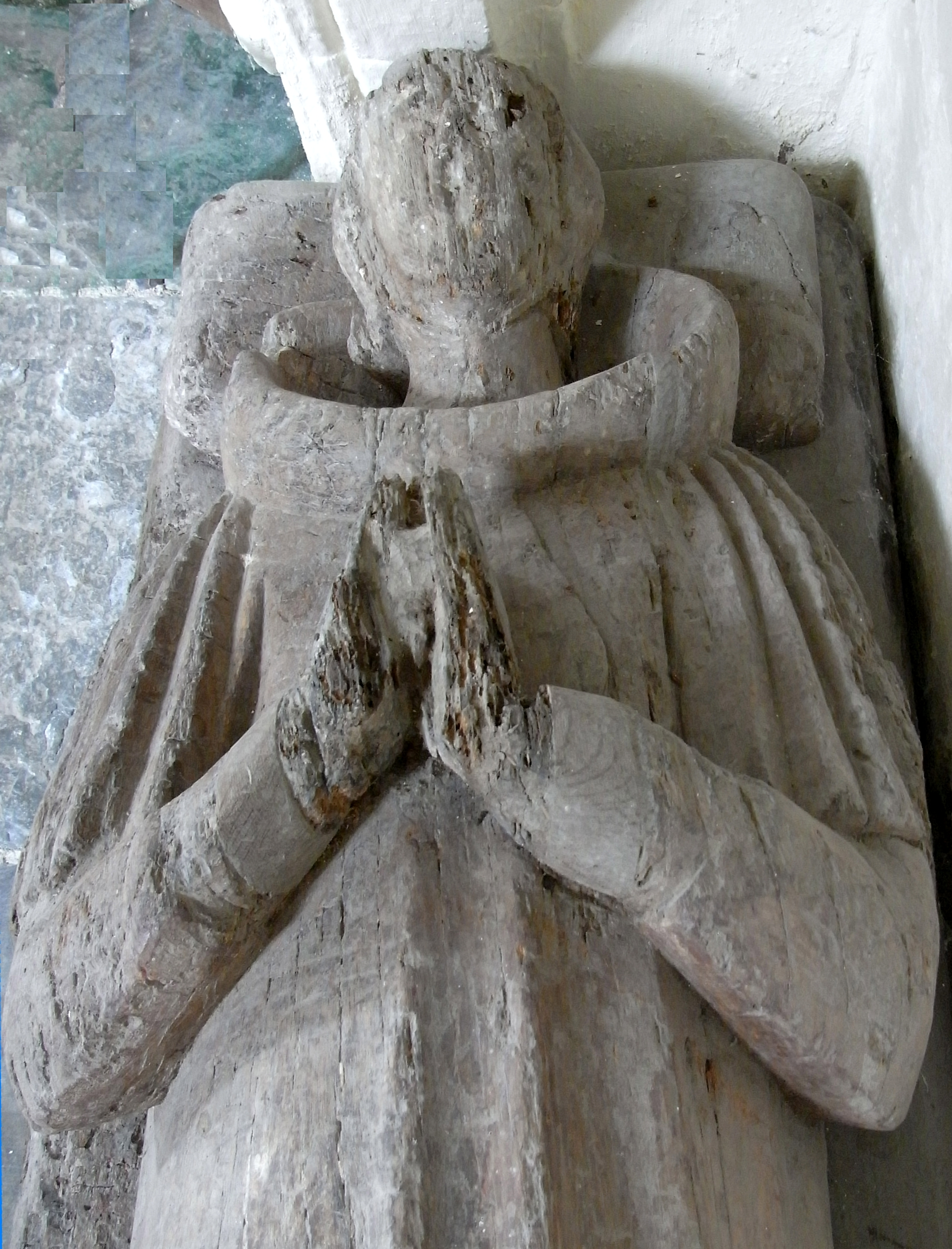 Detail of wooden effigy of Sir John Stowford (c.1290-c.1372), Chief Baron of the Exchequer, West Down Church, Devon